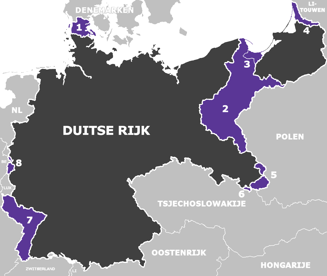 Germany in 1923 and the territorial losses of the Treaty of Versailles (in dutch)